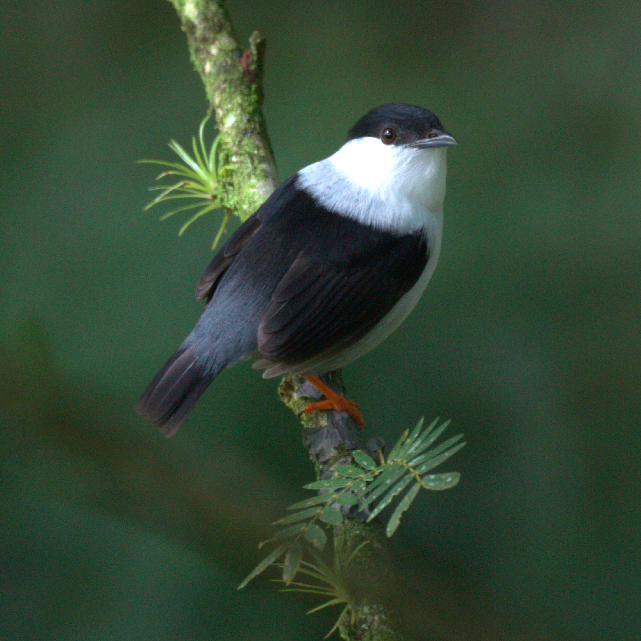 White-bearded Manakin (Manacus manacus) male, Trinidad